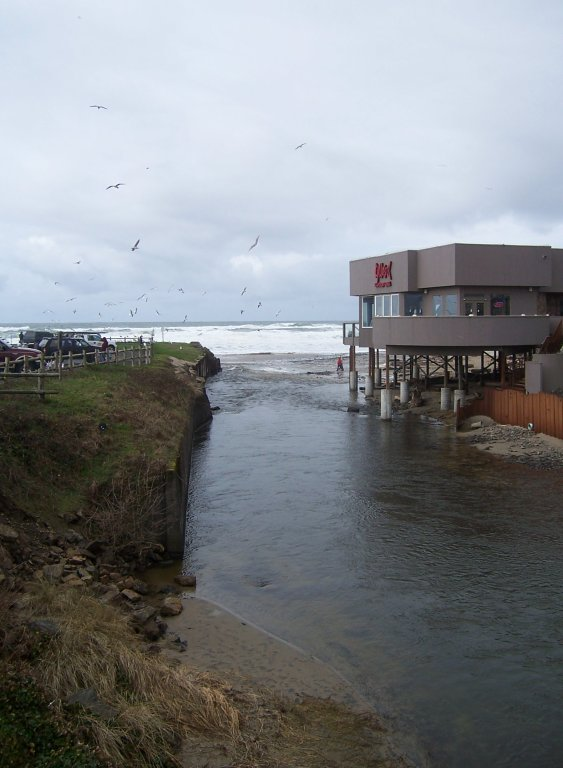 The D River in Lincoln City Oregon as it flows into the sea